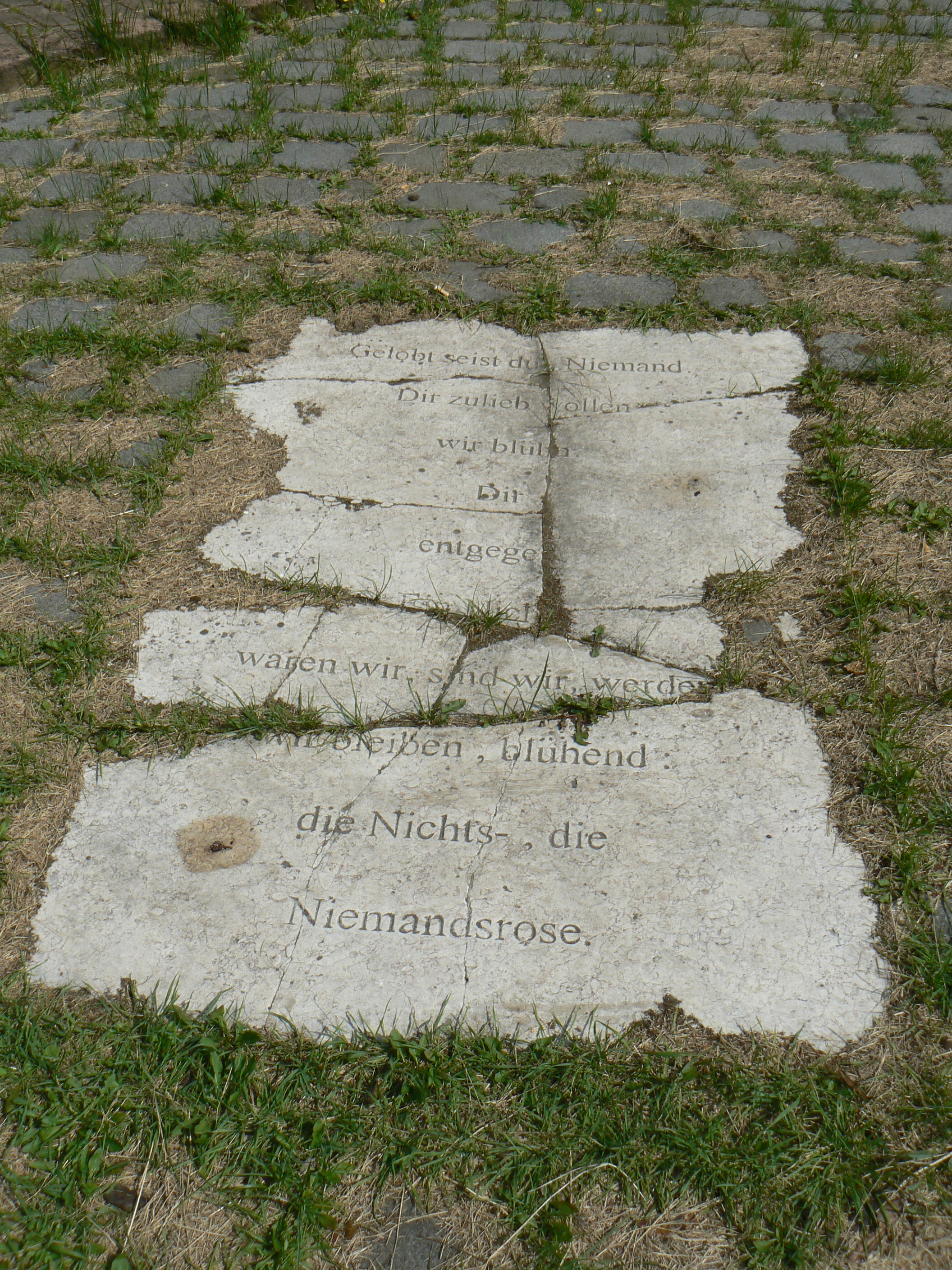 sculpture Bait/Haus (1998/9) by Belu-Simion Fainaru in Duisburg/Germany